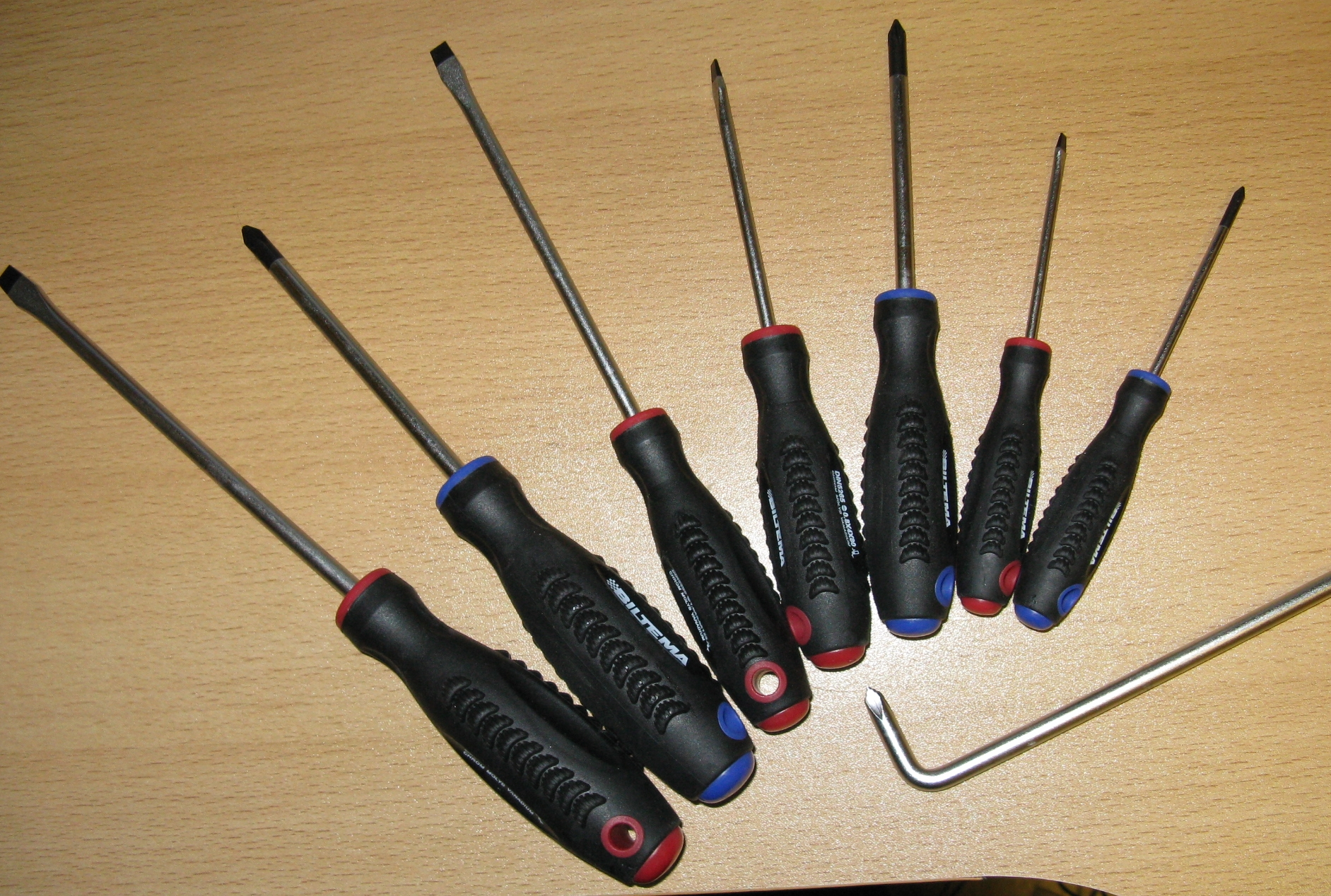 Some standard screwdrivers